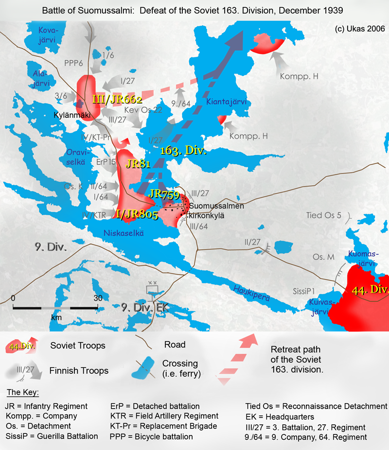 Destruction of Soviet 163rd Division in the Battle of Suomussalmi during the Winter War. I recently noticed my map was quite popular in different Wikis, so I made a version with English explanations. For some reason I don't have the original layered work, so I couldn't just replace old text with English. Makes it a bit clearer. Also this is another png-version, so the quality too is much improved.